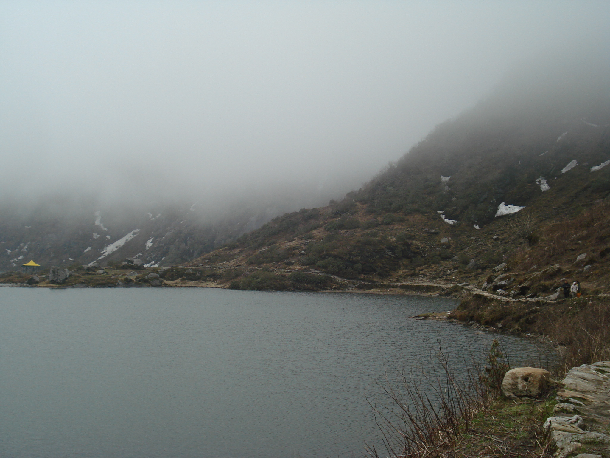 A view of the holy Tsomgo Lake, Sikkim, when covered by mist in Summer.